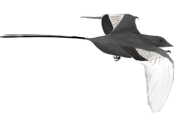 Restoration of the Mesozoic avialan Confuciusornis sanctus (long tailed/male? specimen) in mid-glide. Illustration by Matt Martyniuk, attribution required (see license).